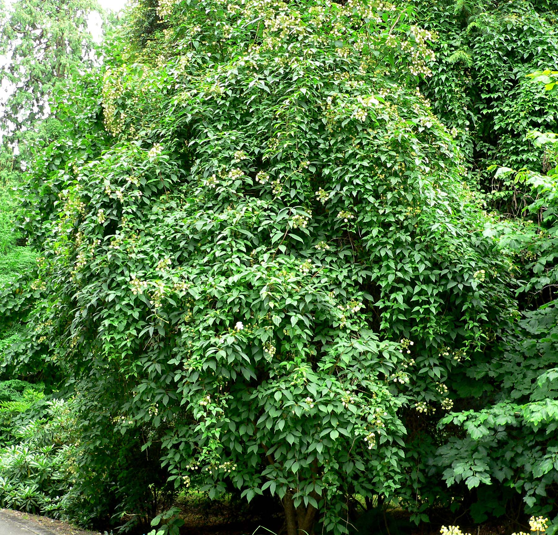 Photo of Hydrangea heteromalla at the UBC Botanical Garden in Vancouver